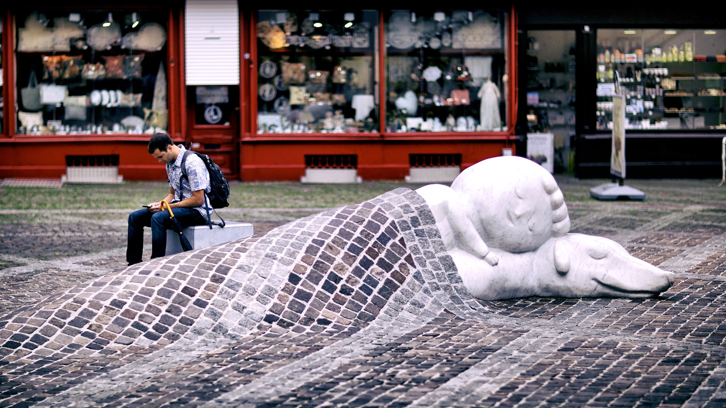 Since I do not believe in the principle of copyright all my shots can be downloaded and used free at will without any prior consent.